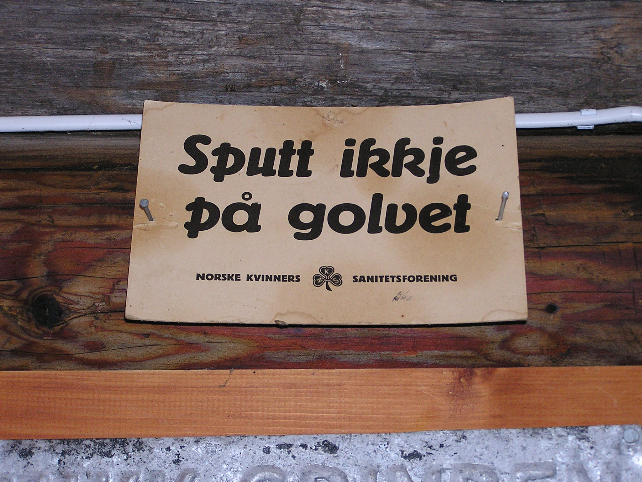 Sign saying "Don't spit on the floor" in Norwegian (nynorsk). Put up as part of the effort to stop tubercolosis